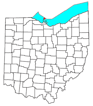 Locator map of the unincorporated community of Isle Saint George in Ottawa County, Ohio, United States.